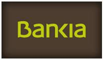 Logo of the Trademark Bankia